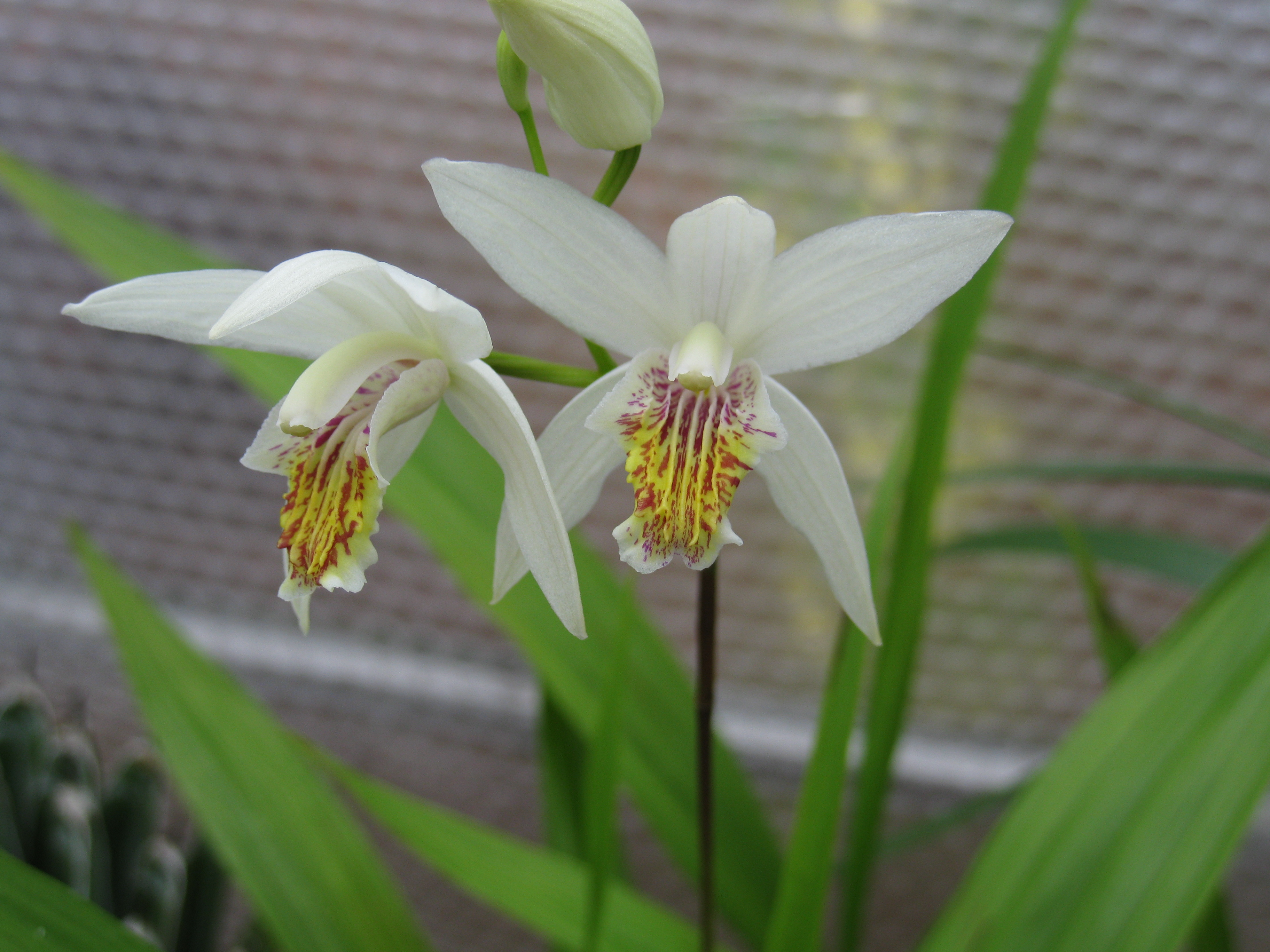 A photograph of Bletilla striata var alba